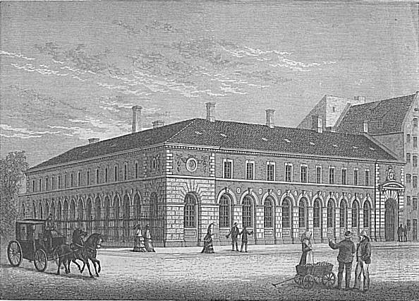 Den Kongelige Mønt (Royal Danish Mint) at Holbergsgade in the Gammelholm district of Copenhagen, Denmark